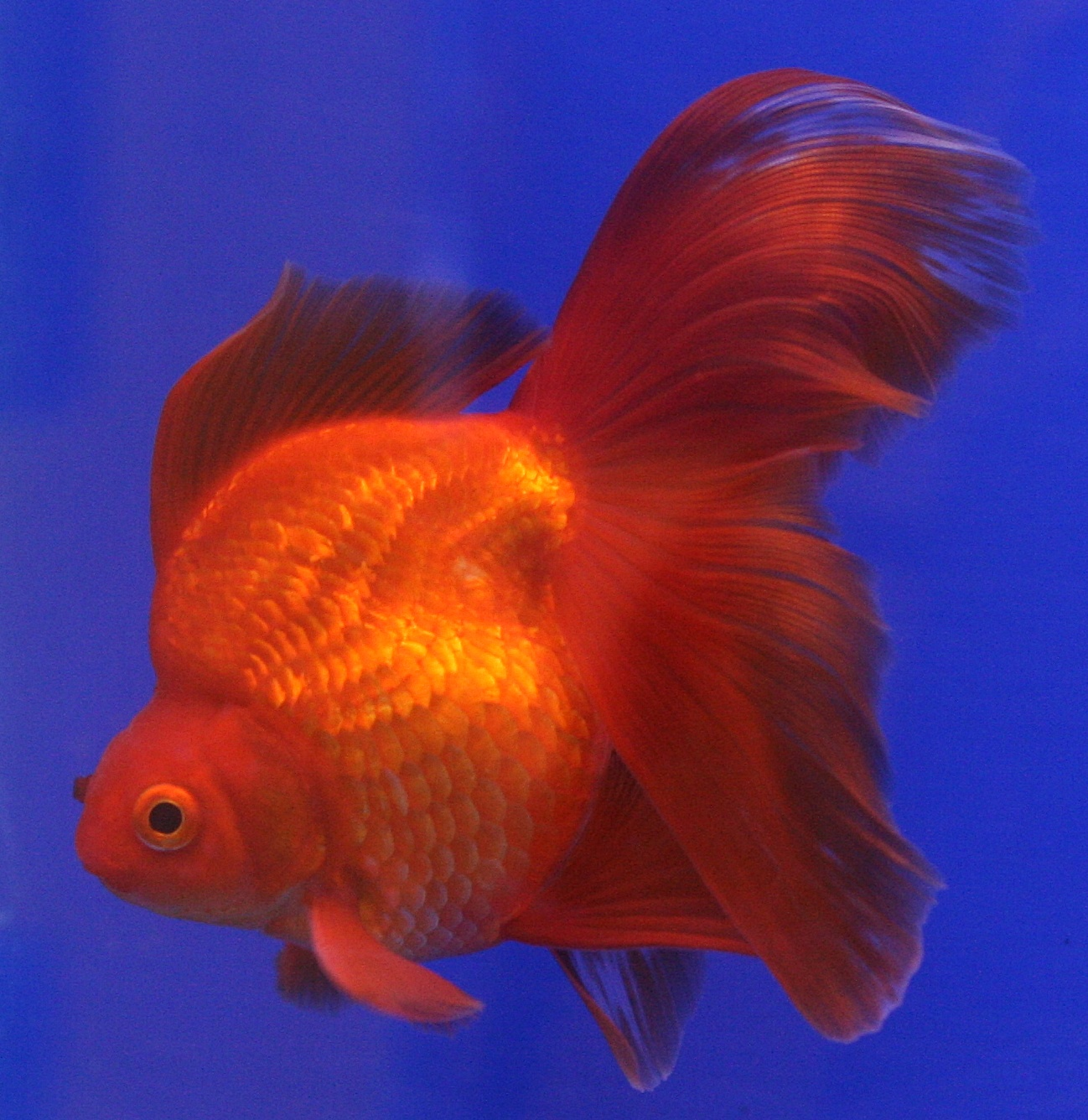 A Ryukin goldfish from The 6th "Pramong Nomjai Thaituala" Thailand Tropical Fish Competition 2007. (Won 1st prize in Ryukin category)